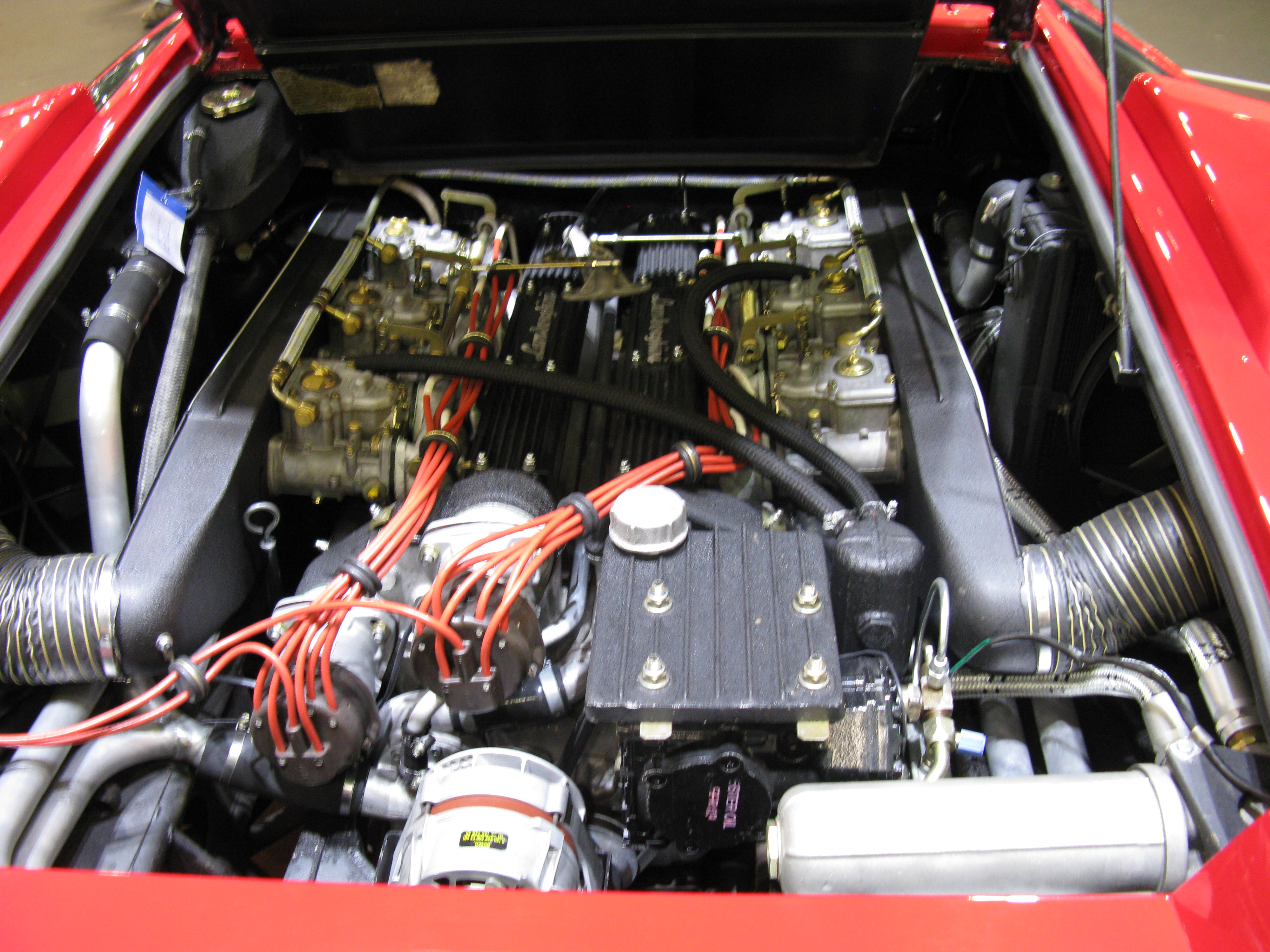 Lamborghini Countach